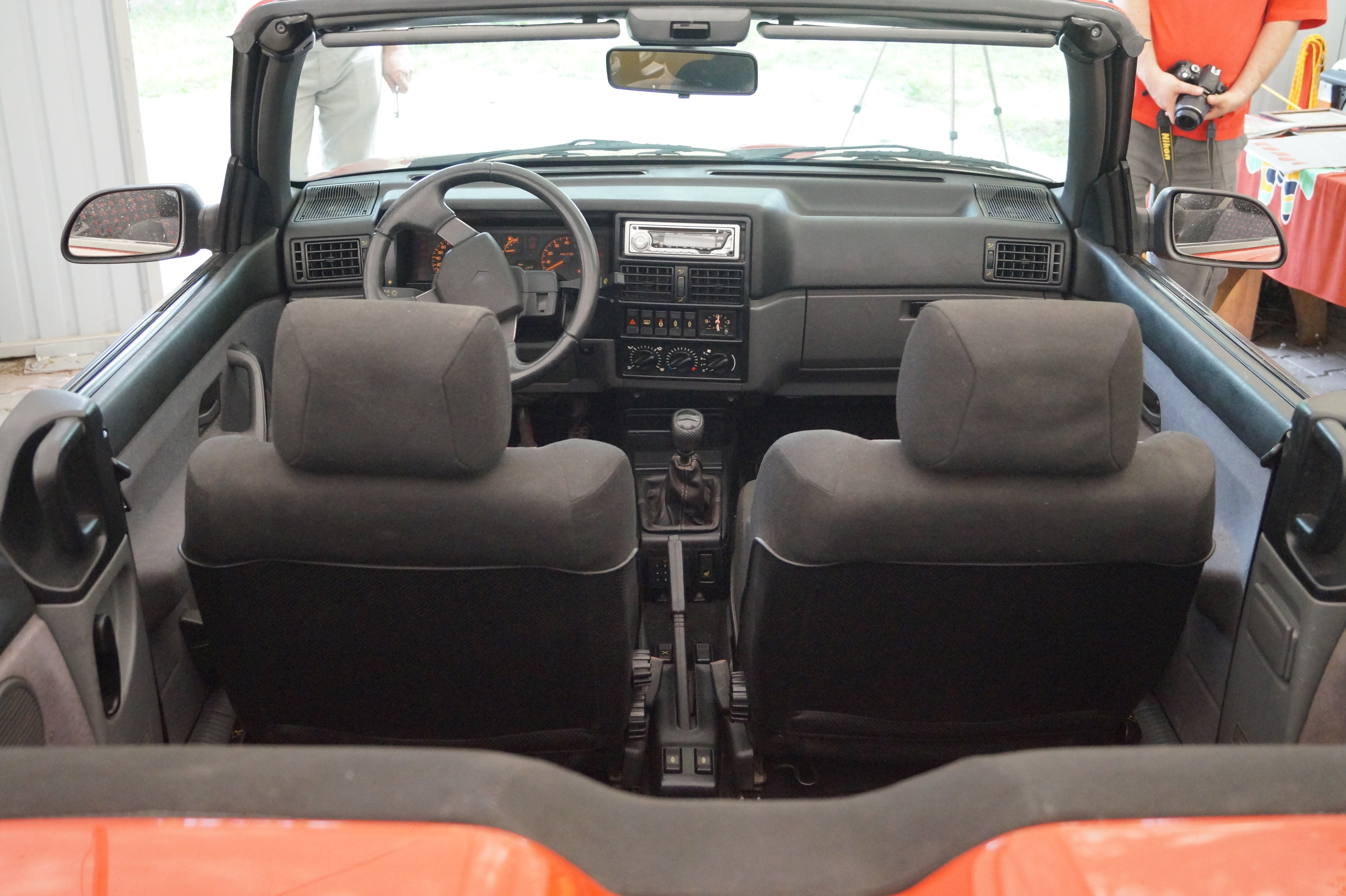 The making of this document was supported by Wikimedia Polska Association, within Wikigrant no. WG 2016-18. Wnętrze Renault 19 Cabrio w Muzeum w Nieborowie